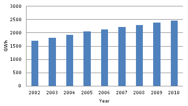 Energy consumption of Reunion Island